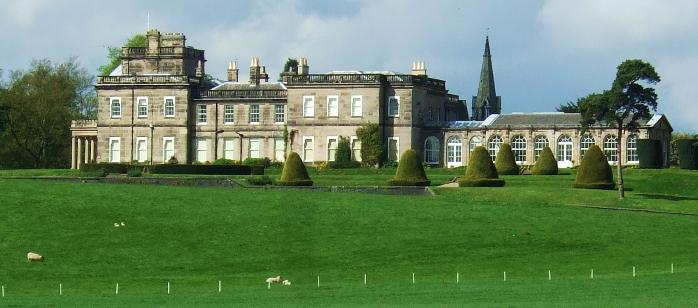 near Burton upon Trent. Staffs. UK